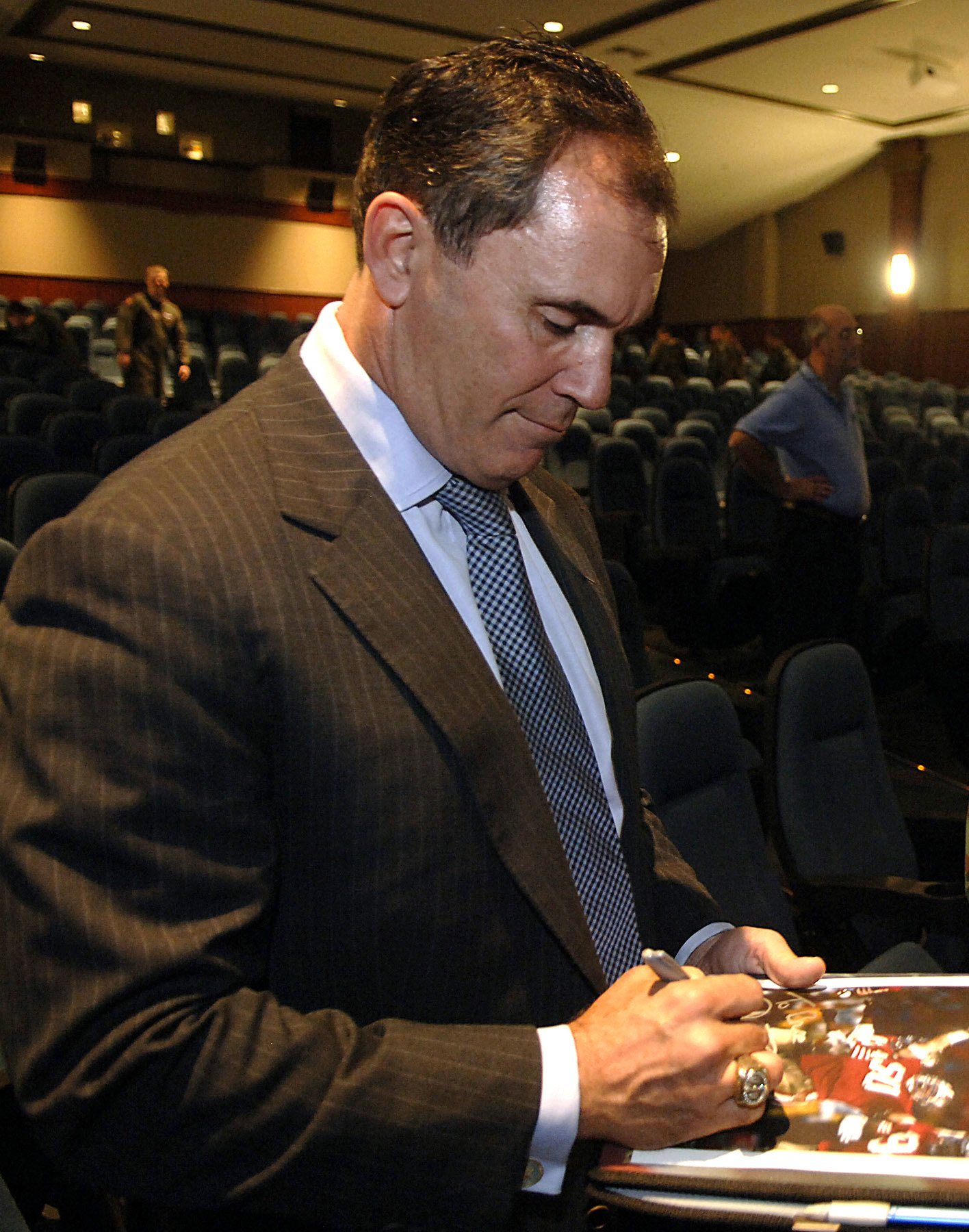 Ricky Ellison, former linebacker for the San Francisco 49ers, signs an autograph for Tech. Sgt. Eric Hale, 437th Airlift Wing Protocol Office. Mr Ellison spoke to Airmen about professional development, his football career and missile defense systems at the Charleston Air Force Base, S.C., theater.